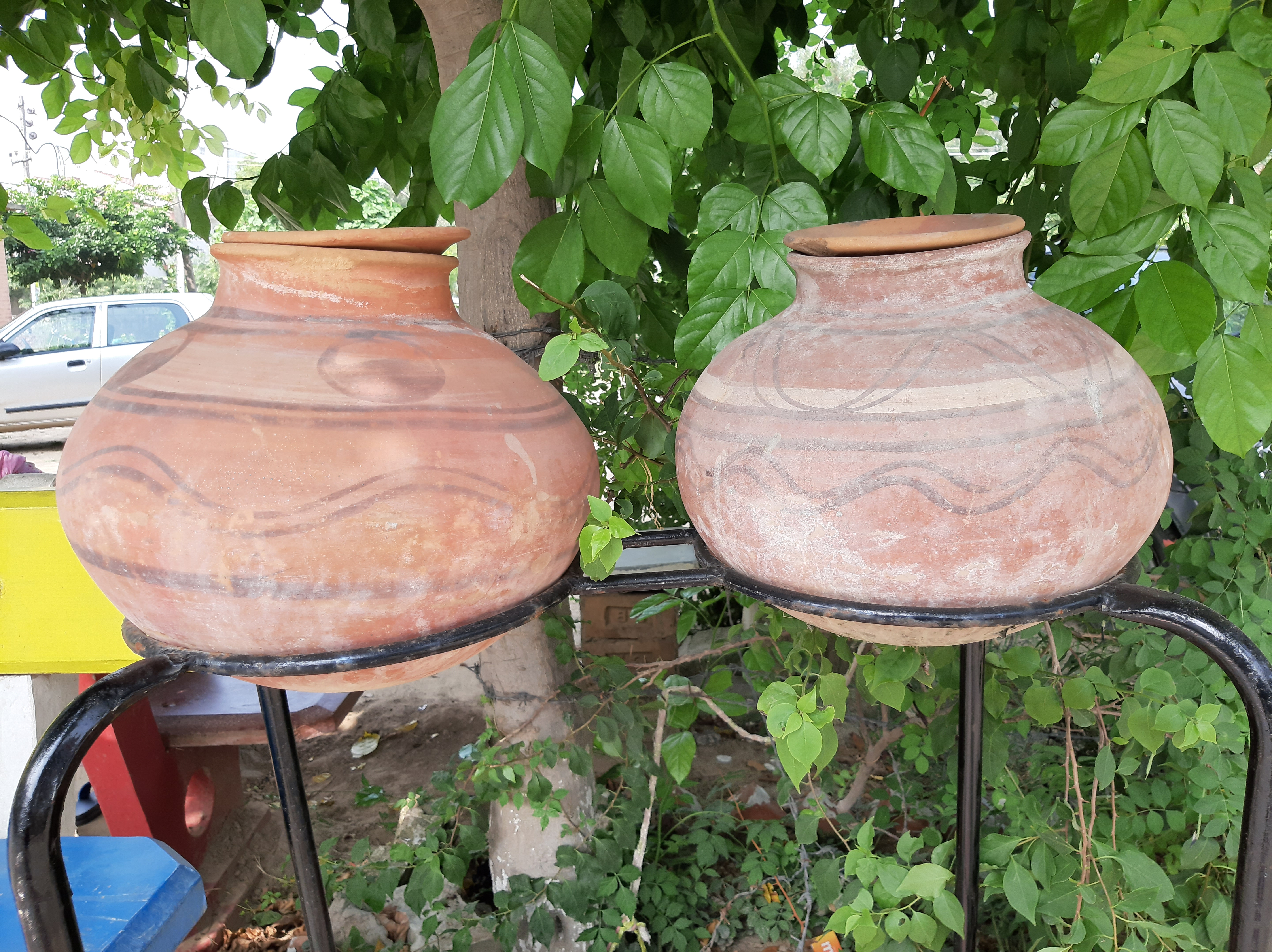 Earthern pots for drinking water